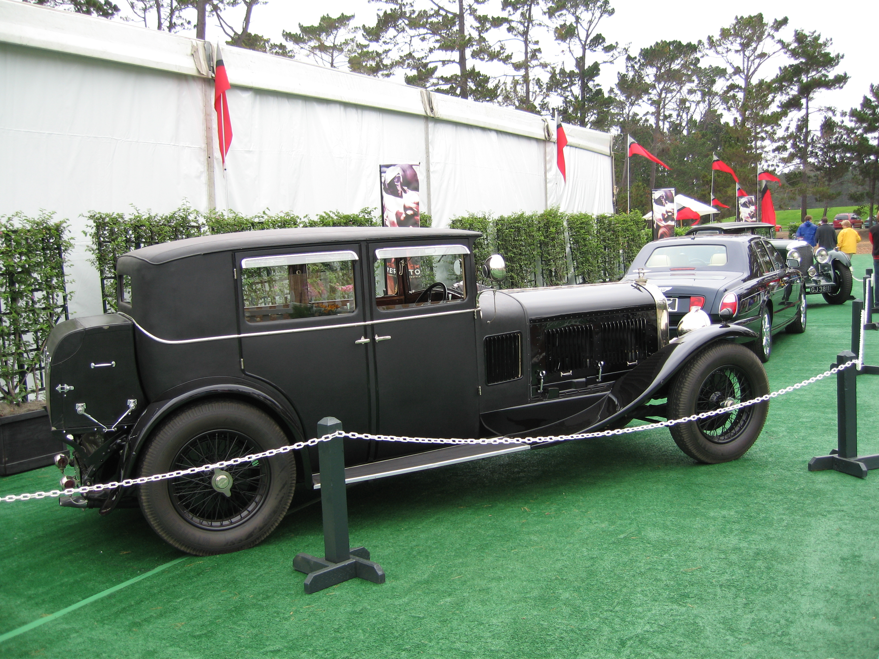 Bentley 6½-litre 1929 Bentley Speed Six saloon, original body was by H J Mulliner Original coachwork Chassis BA2592 11ft 6 inches wheelbase Engine BA2594 Speed Six Reg UU 5999 source of info